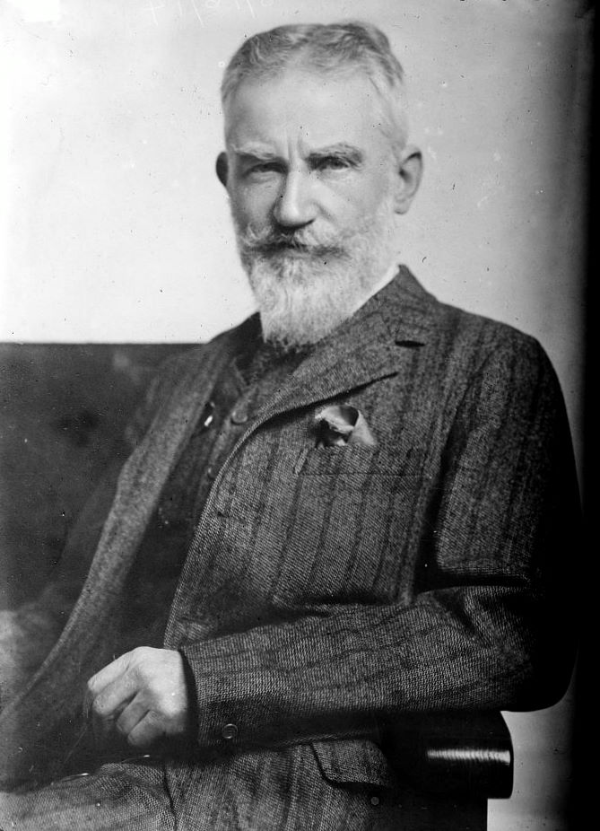 Photograph shows Irish playwright George Bernard Shaw (1856-1950), who was the winner of the Nobel Prize for Literature. (Source: Flickr Commons project, 2011)